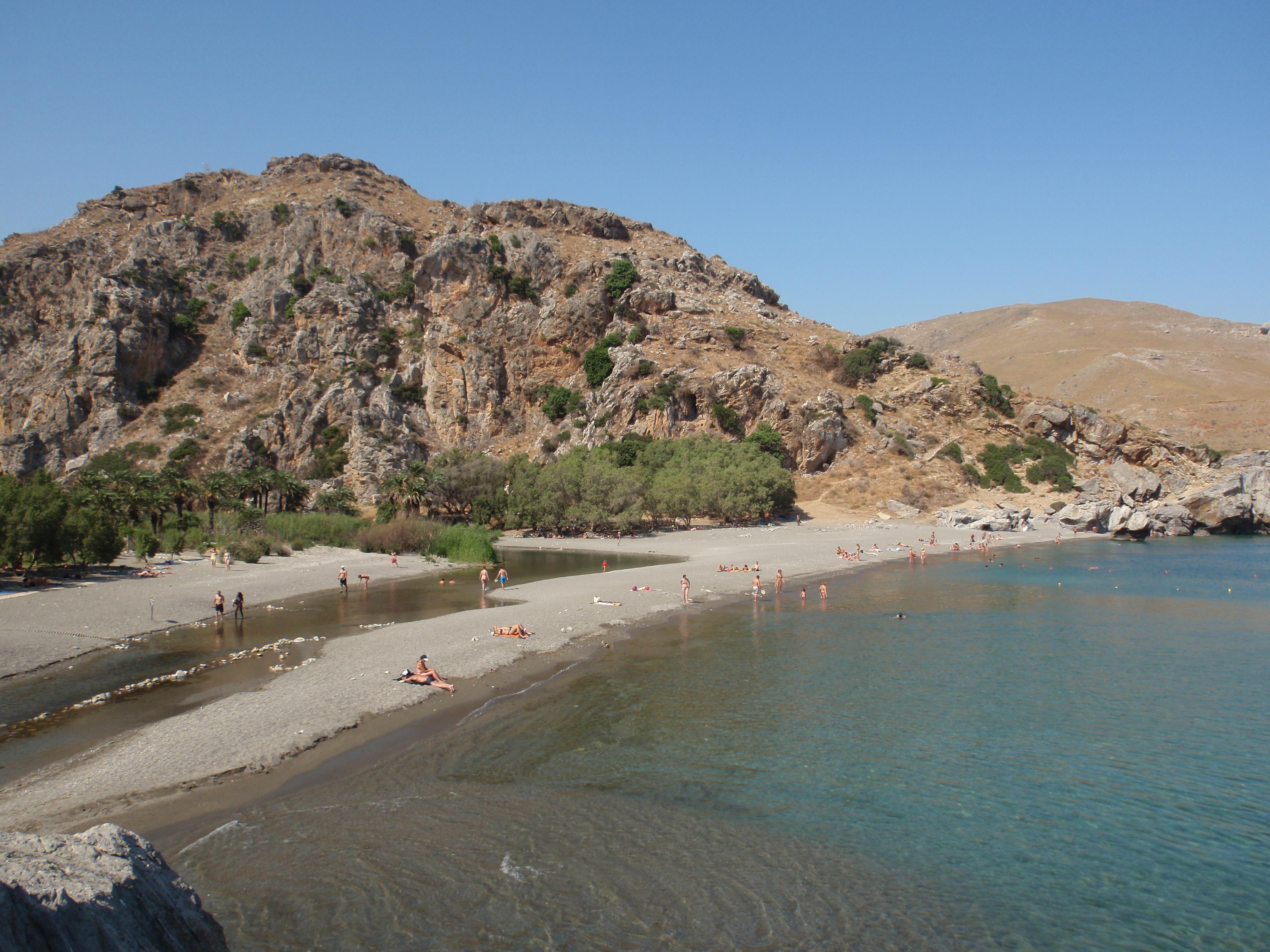 This is a photography of Natura 2000 protected area with ID GR4330007